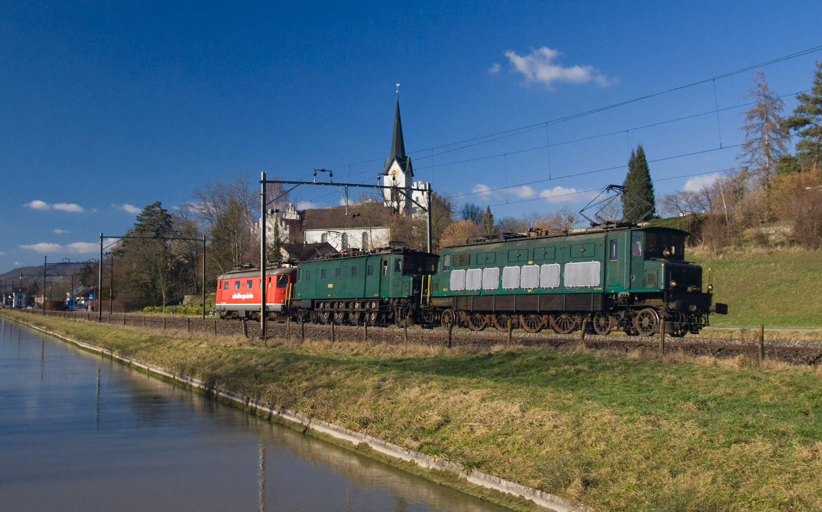 Two Ae 4/7 running in multiple on a trial run to get the admission to run on the Swiss rail network again. A former MThB Re 4/4 I is pulled along. The two Ae 4/7 are going to be used by Rail4Chem.